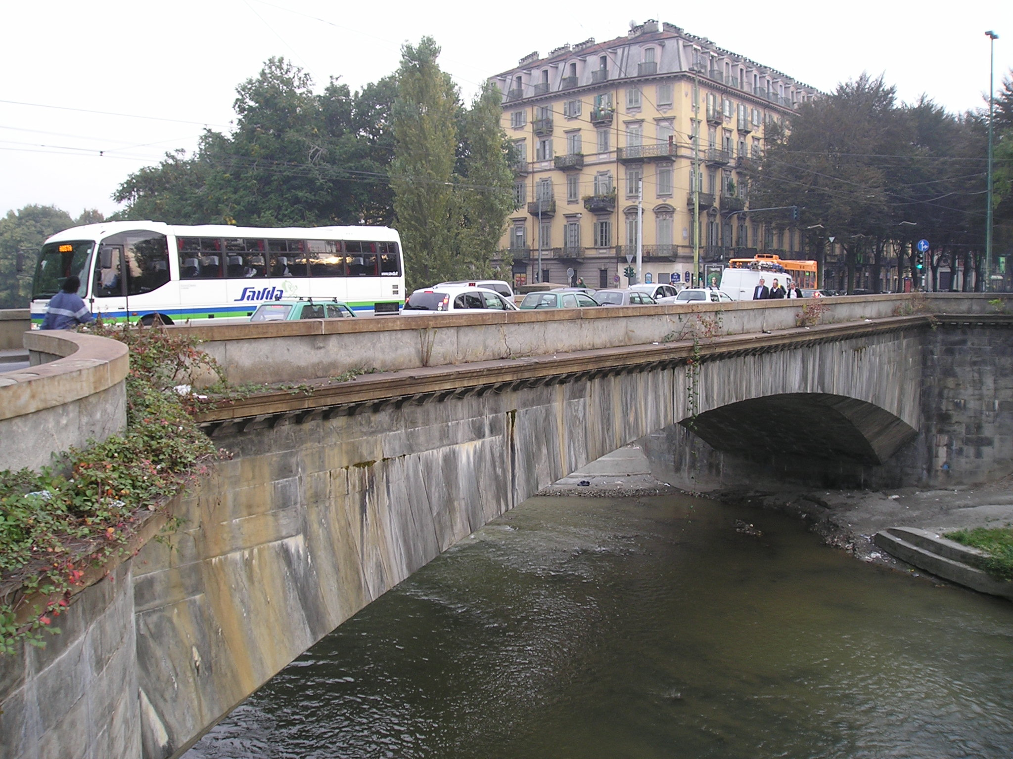 Mosca bridge in Turin, Corso Giulio Cesare. Bus Iveco Euroclass